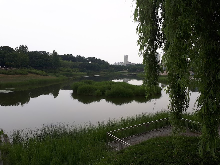 Olympic Park